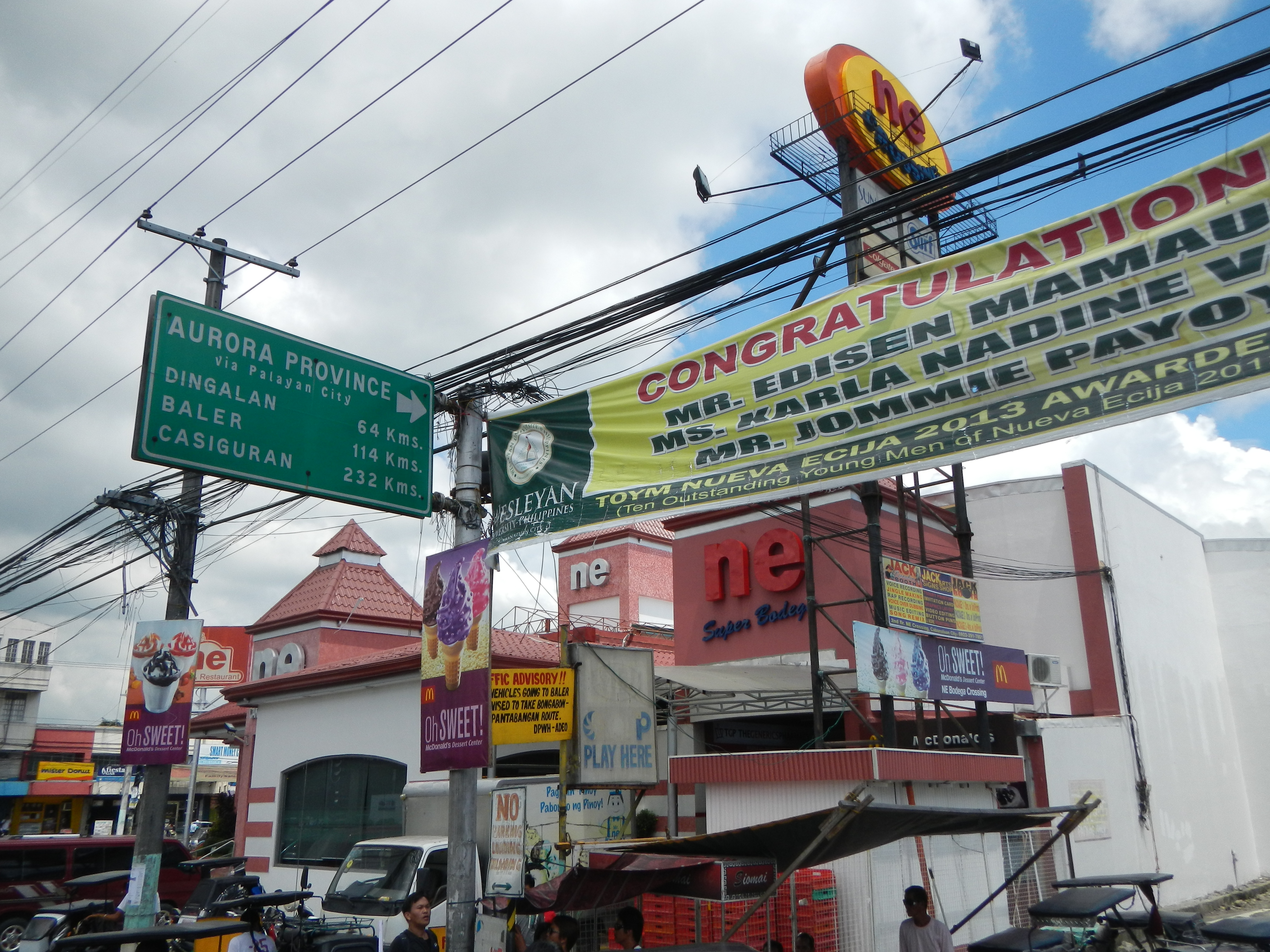 Upload Wizard (general description of landmarks, interesting points, church, town hall, offices) photos (of the scenery, the greens, hills, mountains) - of - a) Cabanatuan City Central Transport Terminal - Cargo & Freight [1] [2] Coordinates: 15°27'32"N 120°56'59"E, b) Cabanatuan bridge and b) Pampanga River[3] and Cabanatuan bridge, c) junction, crossing, bus terminal at NE Superbodega, Cabanatuan City Maharlika Highway, d) Rizal, Nueva Ecija [4] Highway.